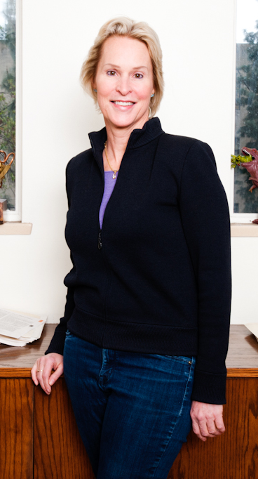 Photo of Prof. Frances H. Arnold, May 2012